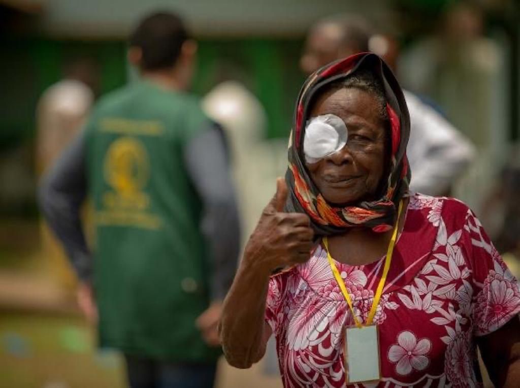 مصرى: فرحة امرأة مسنة بعد اجراء عملية الماء الأبيض This is an image with the theme "Africa on the Move or Transport" from: Congo